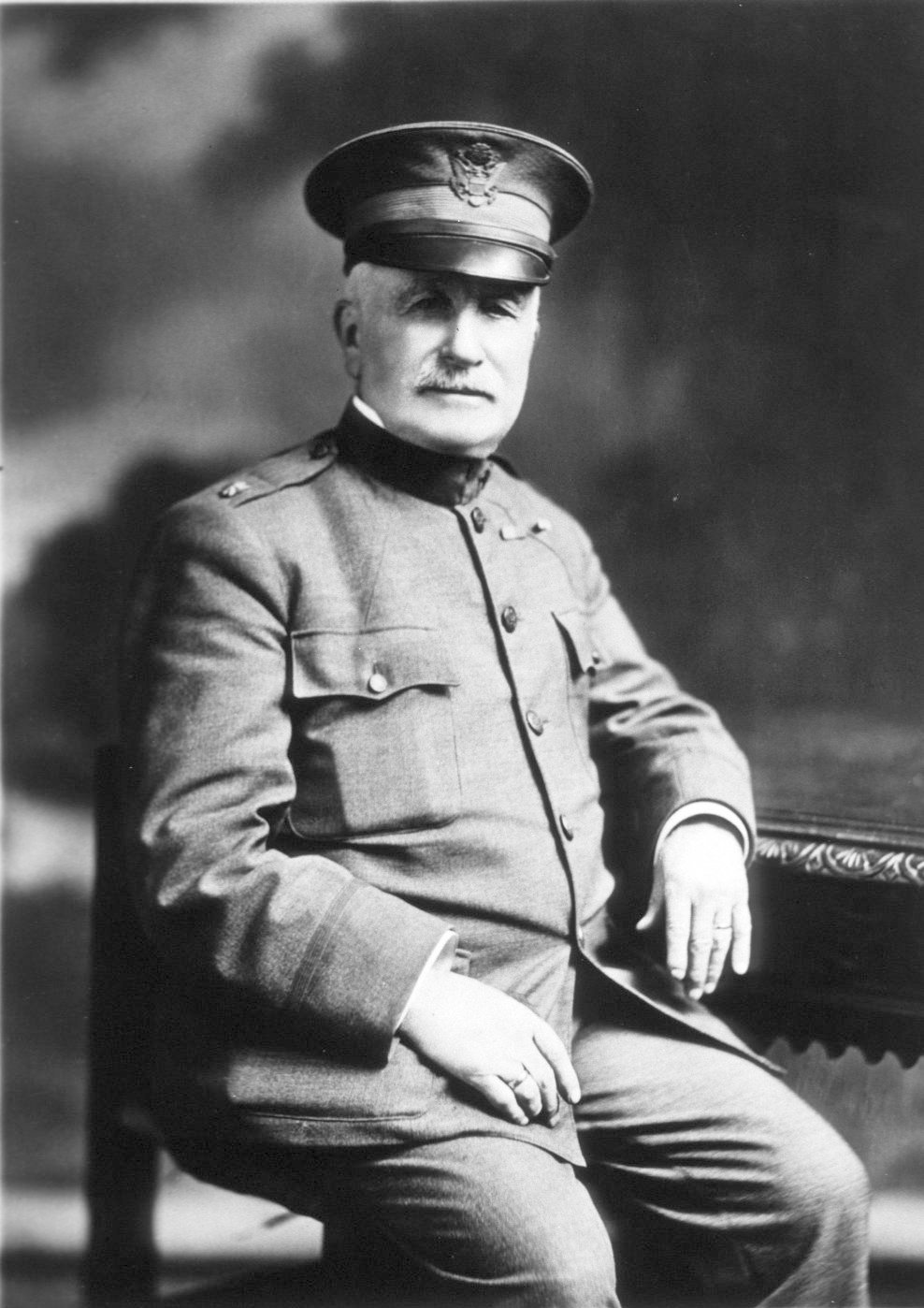 William Williams Keen, first brain surgeon in the U.S.